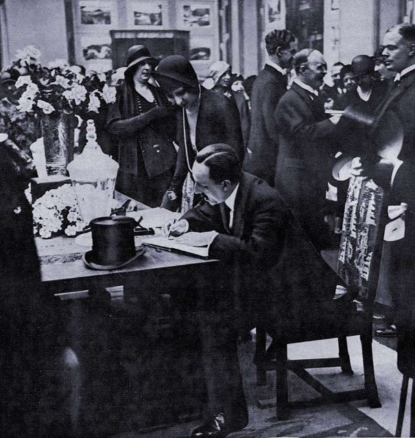 Barcelona World Fair 1929: opening ceremonies of the Finnish section, king Alfonso XIIII writing his name in the guest book. Behind him is ms. Gripenberg, behind her is Queen Consort Victoria Eugenie of Battenberg.